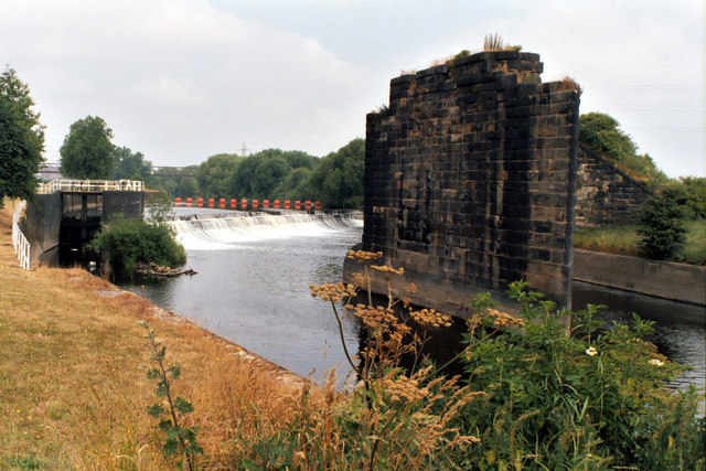 Knostrop Weir, River Aire. There has been much change over the years to the waterways and railways in this area. Originally, the River Aire ran to the south of Knostrop Cut, not the north, so the Navigation had to lock into the river and then out again by Thwaite Locks, (which no longer exist). Then for a while the river had both old and new channels, but the old southerly channel parallel to Knostrop Cut was filled in and built over. The railway viaduct piers belong to the Great Northern Railway Hunslet branch, which was still in use, although not for passengers, until after WWII.